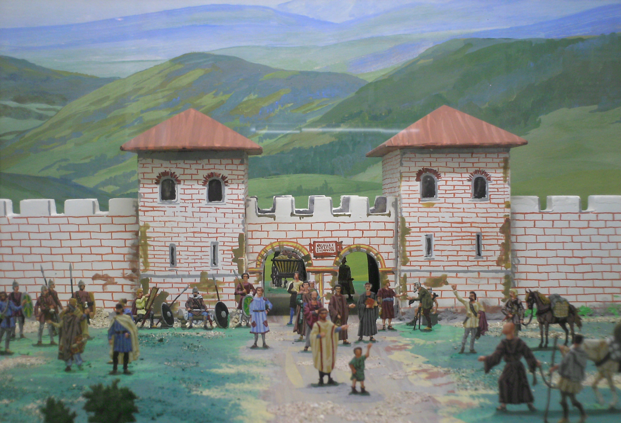 Severin meets the King Gibult before Batavis. Miniatures Diorama, Roman Museum Tulln.